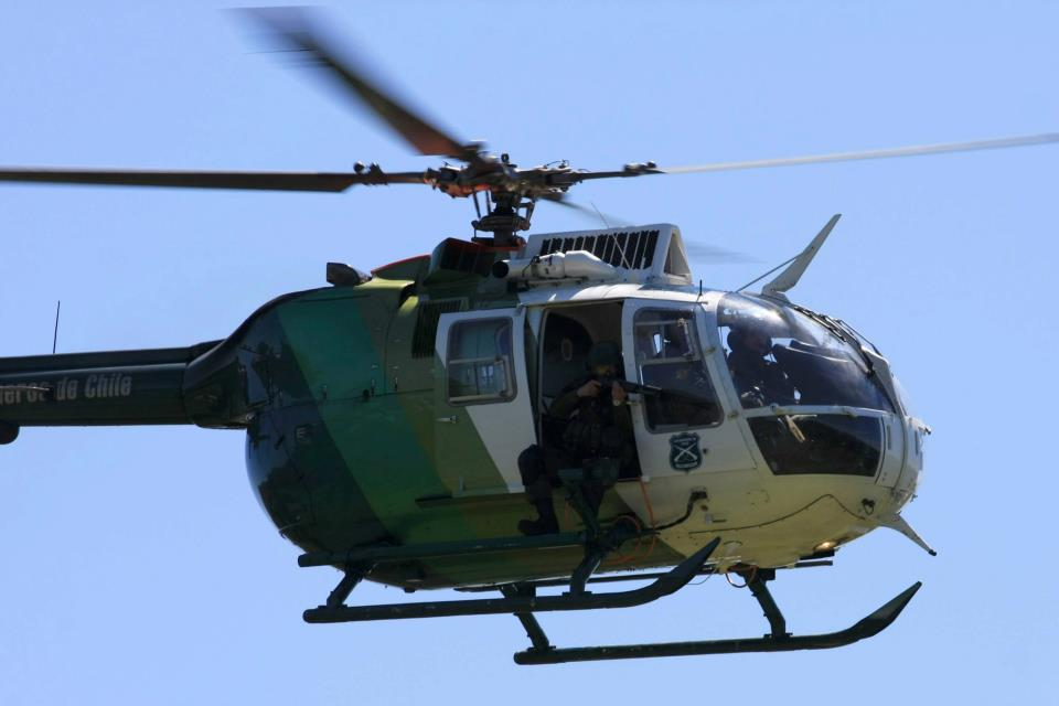 Helicoptero de carabineros de Chile bo-105 en operaciones antidisturbios en la araucania